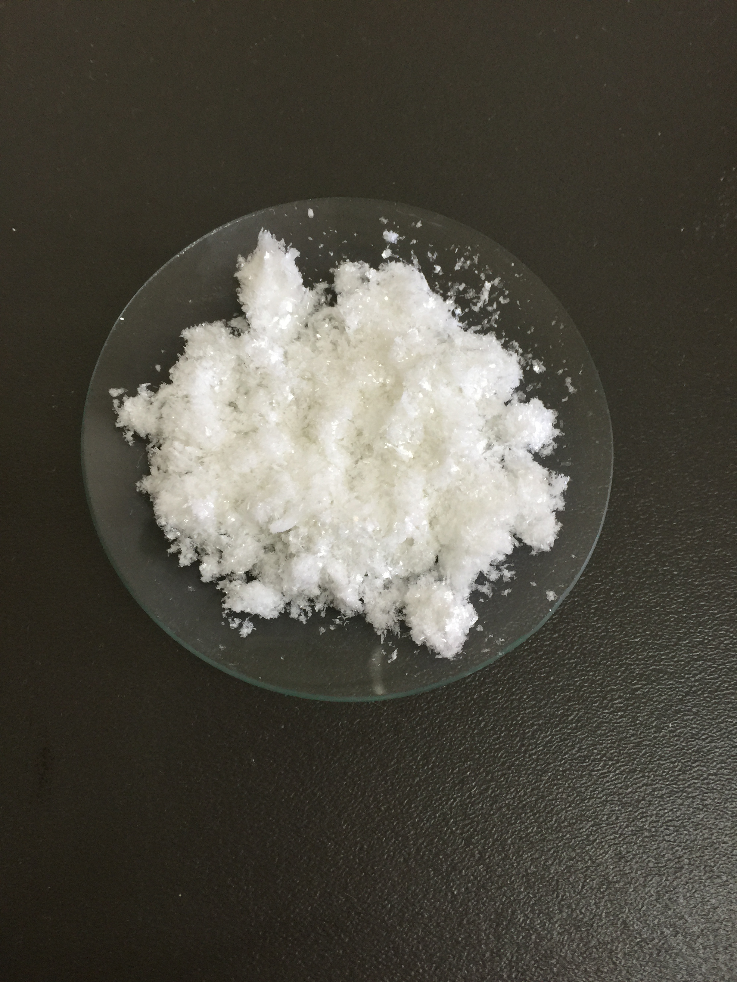 Acetanilide Crystals on a watch glass. 文言: 表面皿上的乙酰苯胺晶體